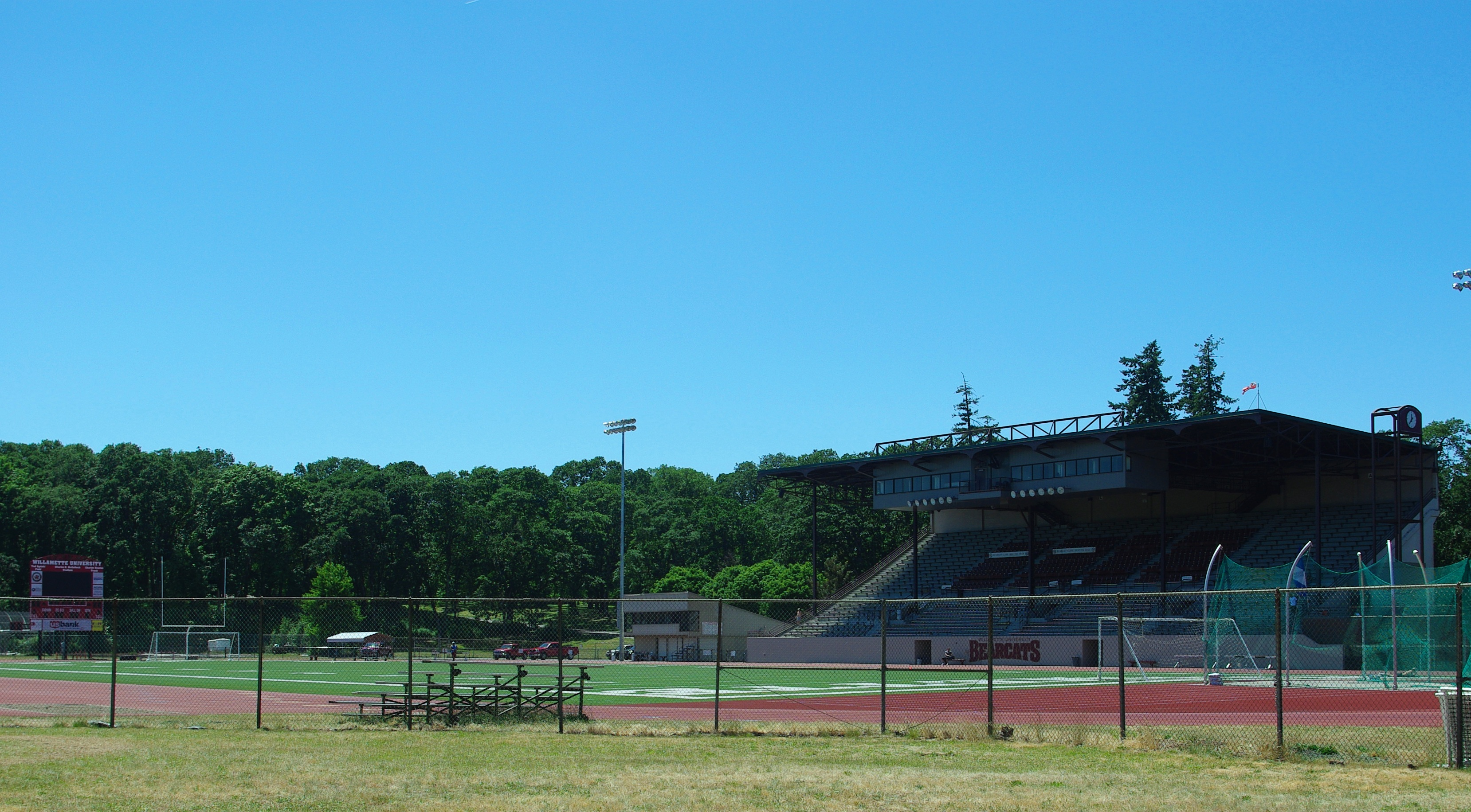 McCulloch_Stadium in Salem, Oregon, USA